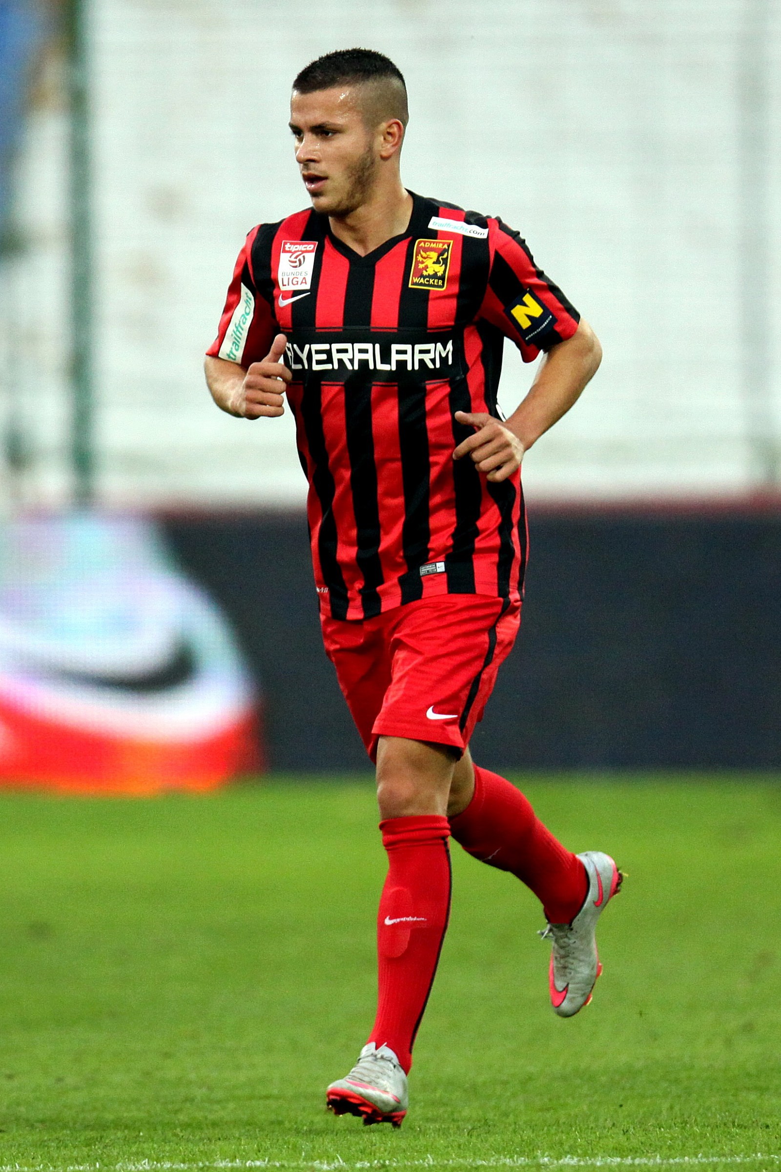 Match of the Austrian Football Bundesliga – FC Admira Wacker Mödling (red shirts) vs. SK Sturm Graz (white shirts) 0-1 (0-0) on 2015-09-27 in Bundesstadion Sudstadt – The photo shows Srdan Spiridonovic